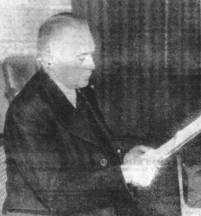 Srđan Budisavljević (1884-1968), Croatian politician and lawyer